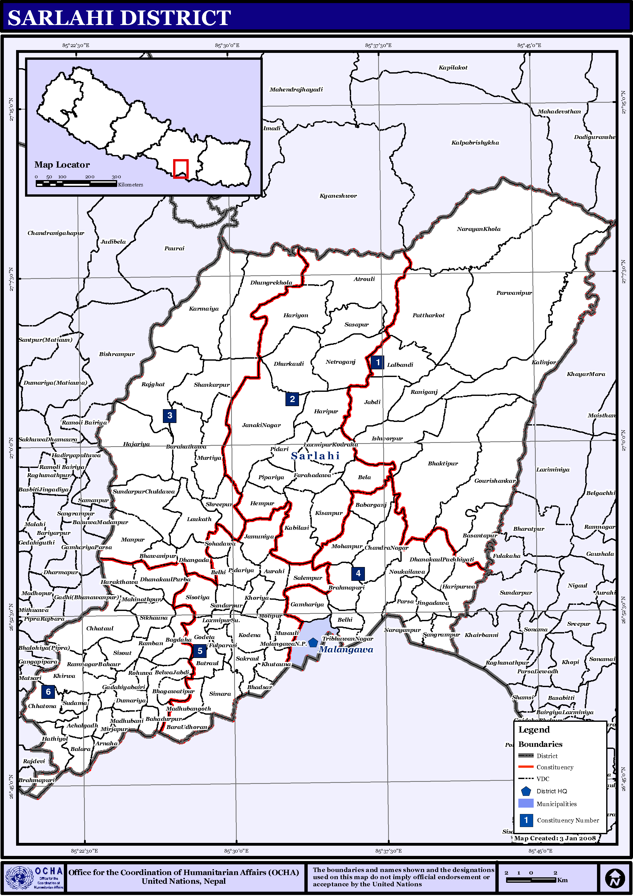 Map displaying Village Development Committees in Sarlahi District, Janakpur Zone, Nepal